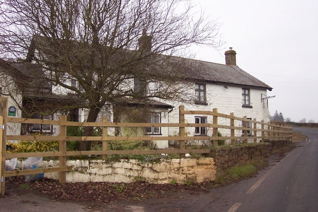 A country inn - now sadly closed